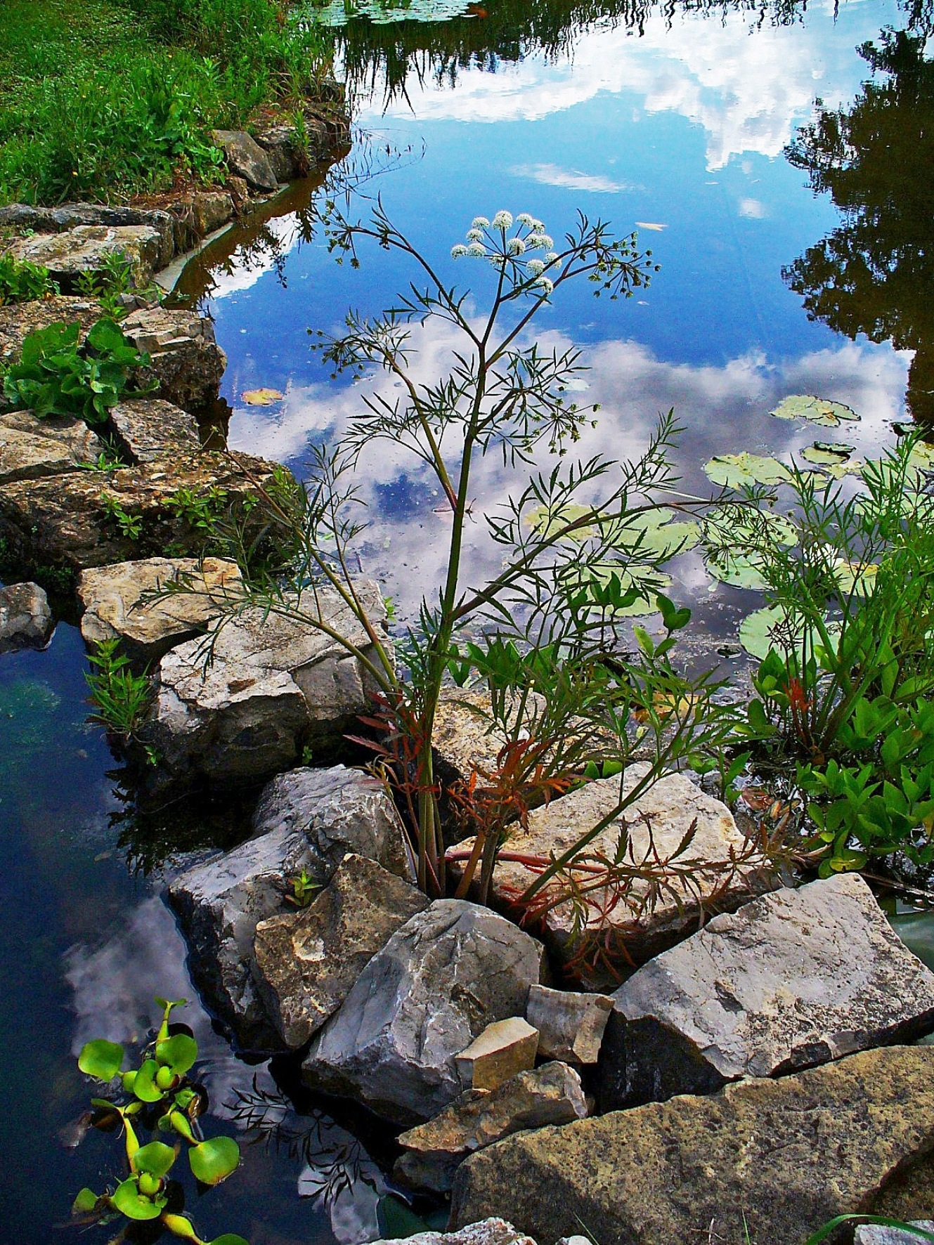 Cicuta virosa, Apiaceae, Cowbane, Northern Water Hemlock, habitus. The fresh subterranean parts of the blooming plant are used in homeopathy as remedy: Cicuta virosa (Cic.)